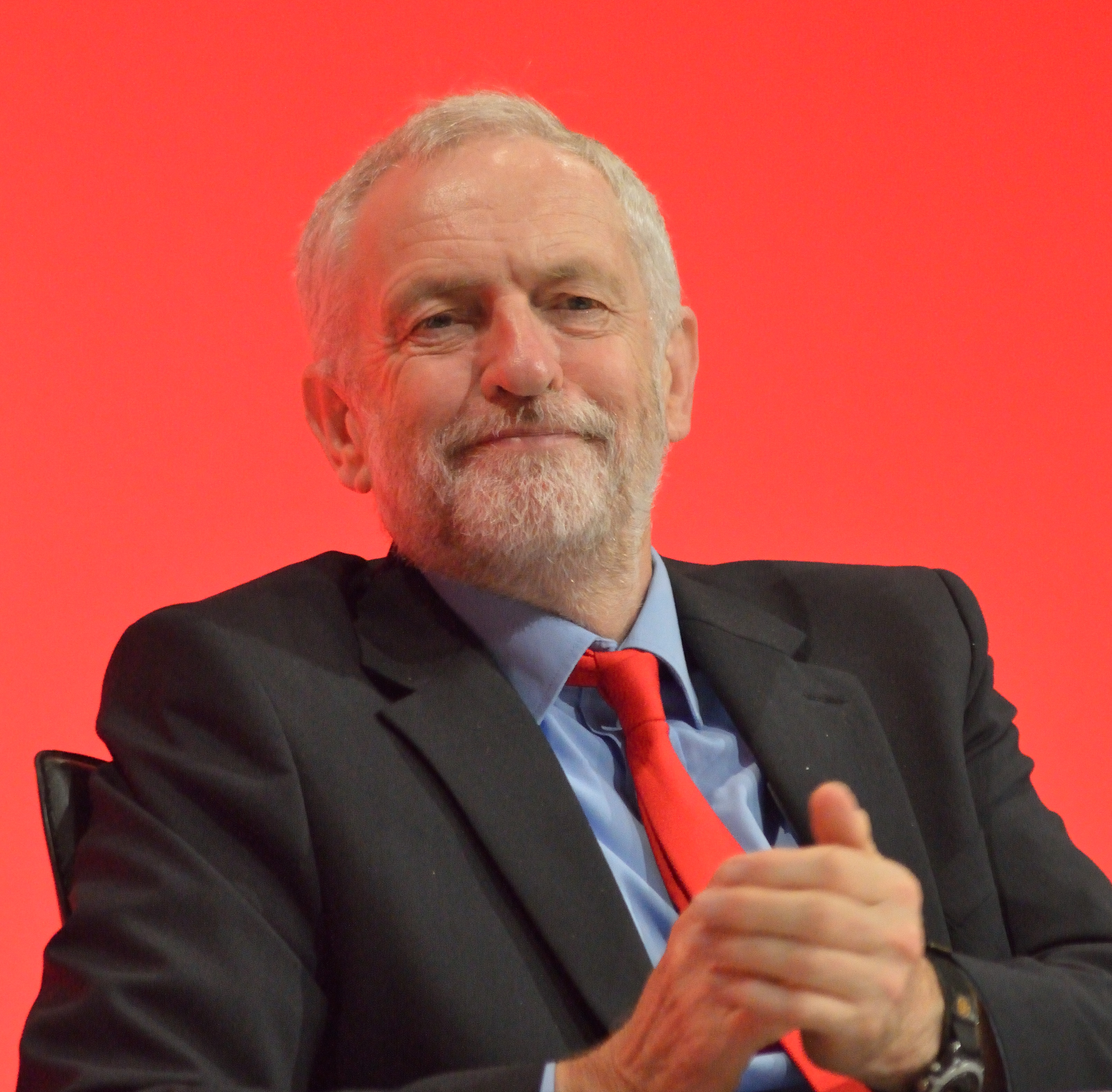 Jeremy Corbyn on the conference platform, listening to Andy Burnham give his final Shadow Home Secretary speech at the 2016 Labour Party Conference in Liverpool. Burnham had already announced he would be standing in the Mayor of Greater Manchester election in 2017.